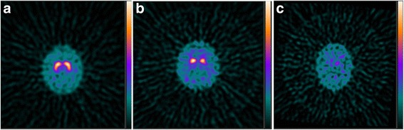 DaT scan examples. DaT scan transaxial SPECT sections for: (a) a patient with essential tremor, showing high symmetric uptake in both caudate and putamen regions; (b) a patient with Parkinson’s disease, showing markedly reduced putamen activity and asymmetric caudate activity; (c) a patient with dementia with Lewy bodies, showing nearly absent caudate and putamen uptake.